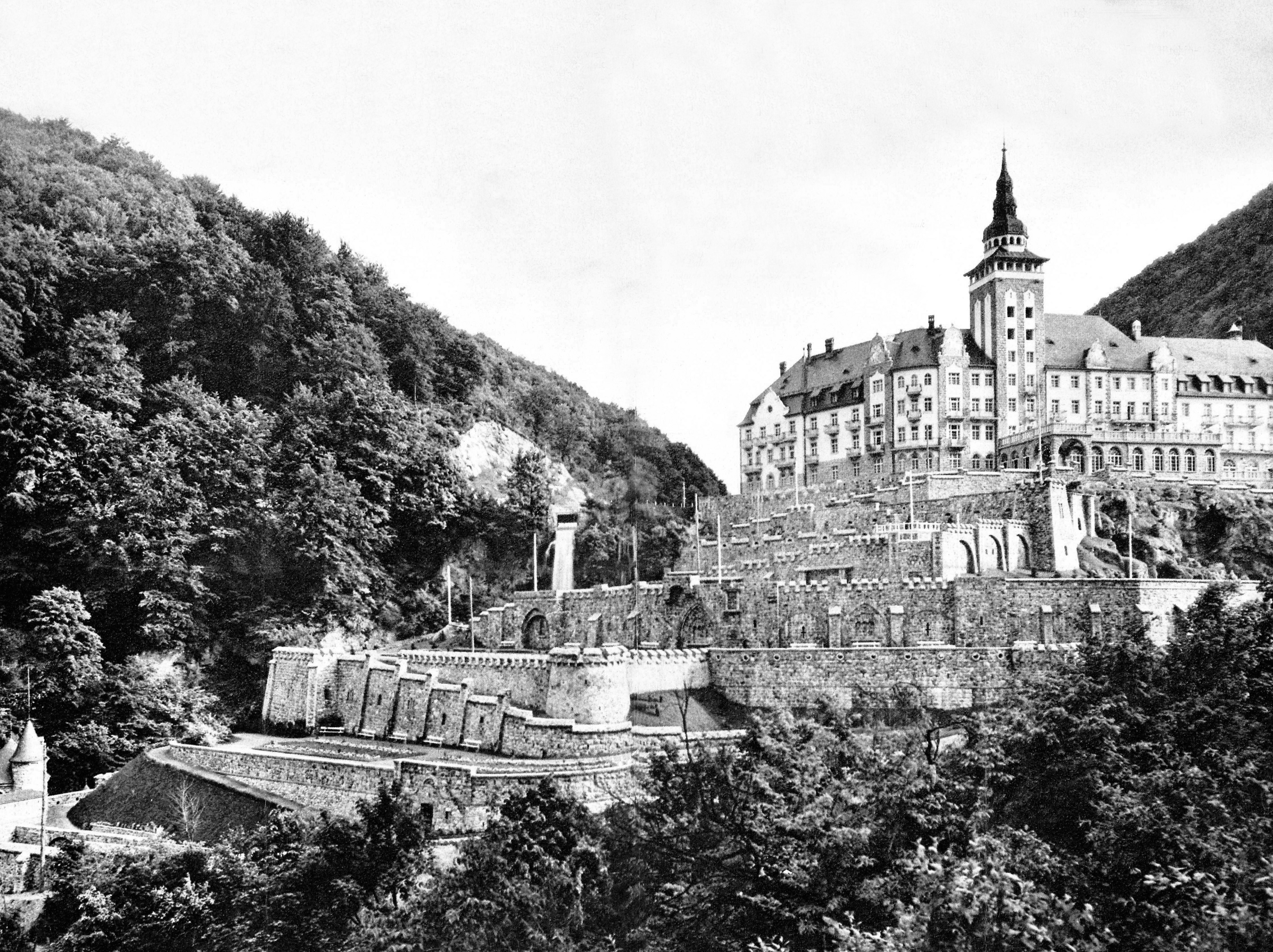 The Palace Hotel and the hanging gardens in 1930, Lillafüred, Hungary